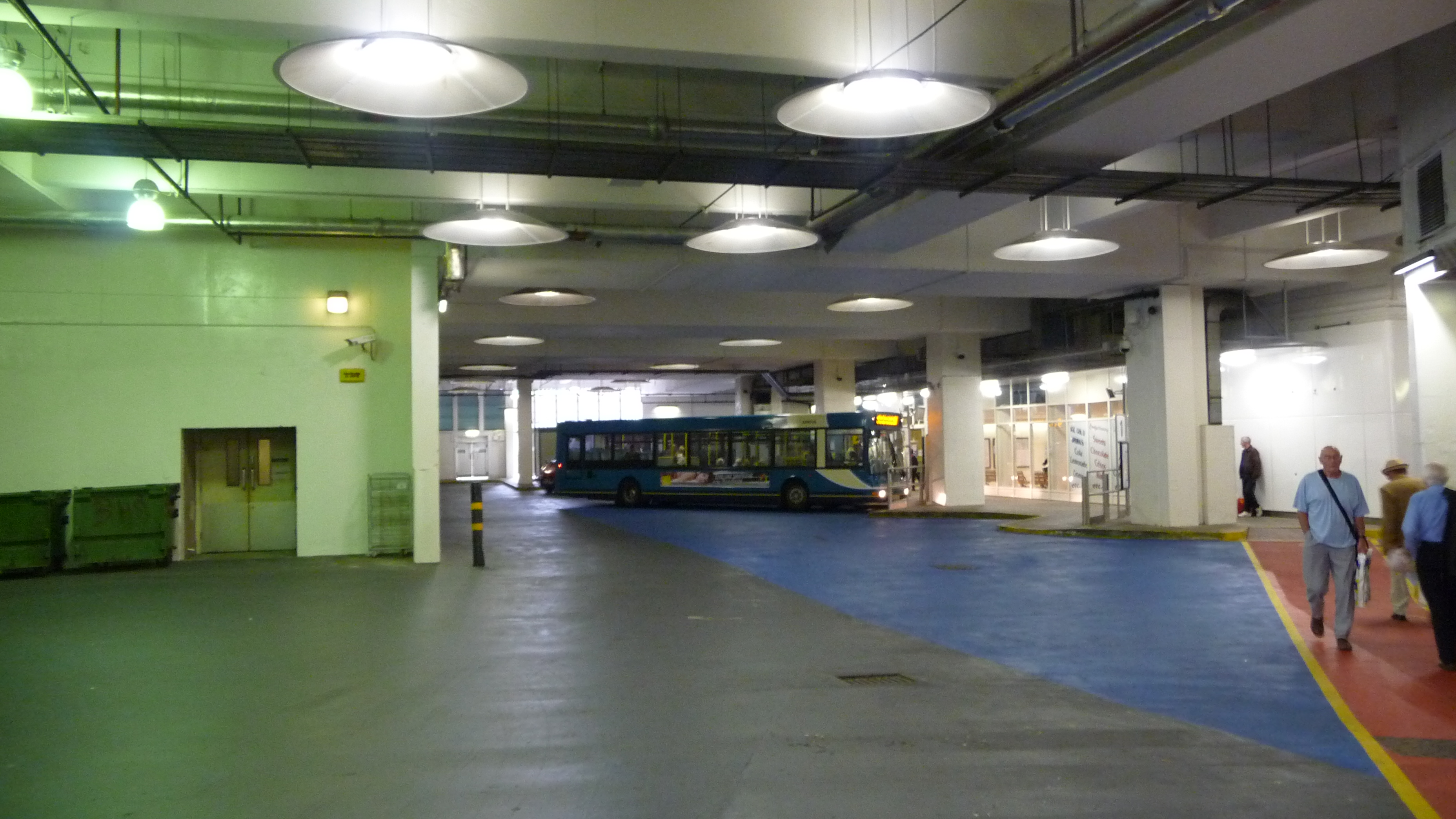 Aylesbury bus station, Aylesbury, Buckinghamshire, seen in July 2009, relatively recently after being refurbished. Aylesbury bus station is an "underground" bus station, being underneath a shopping centre, and as can be seen, isn't particularly welcoming. The bus station is U-shaped, with both ends connecting with Great Western Street. The bus station operates a one-way system, and this end is the side that buses exit the station back onto Great Western Street.